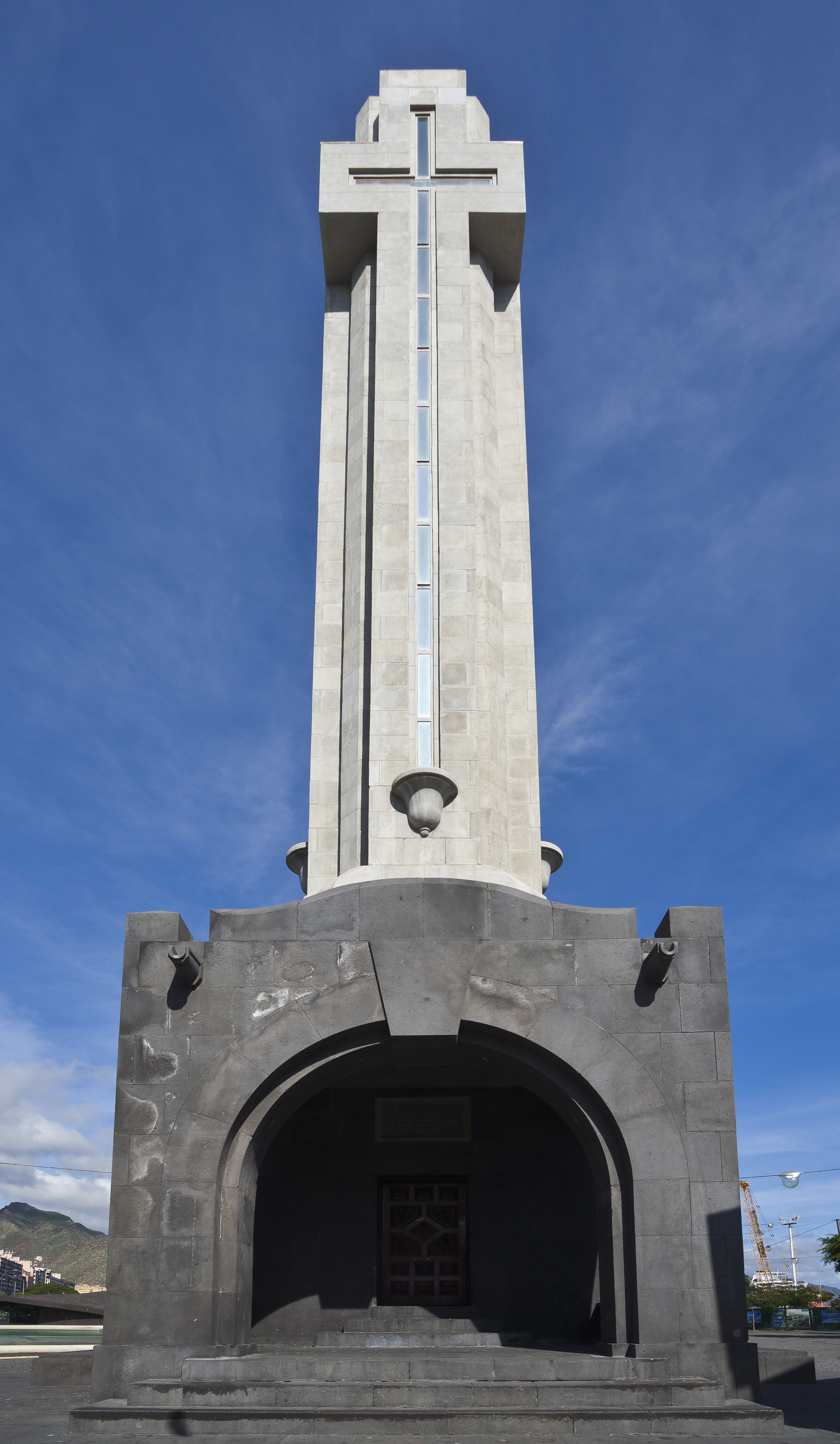 Monumento a los Caídos, Santa Cruz de Tenerife, Spain